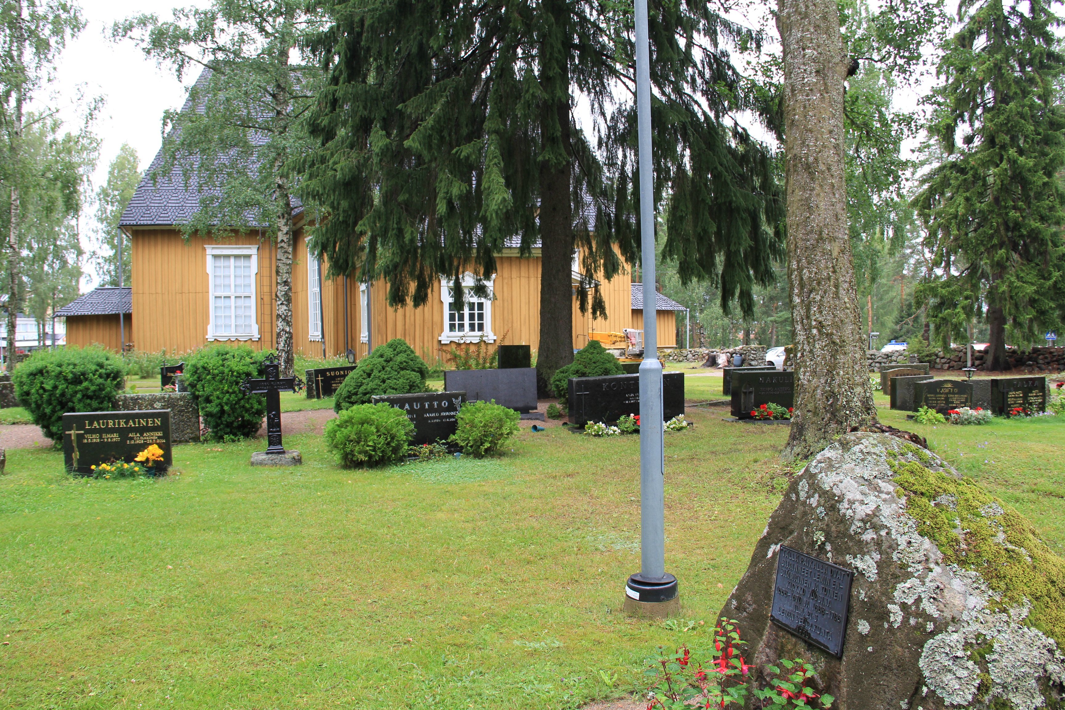 Memorial of Lemi previous churches, Lemi churchyard, Lemi, Finland. - Memorial was unveiled in 1986.